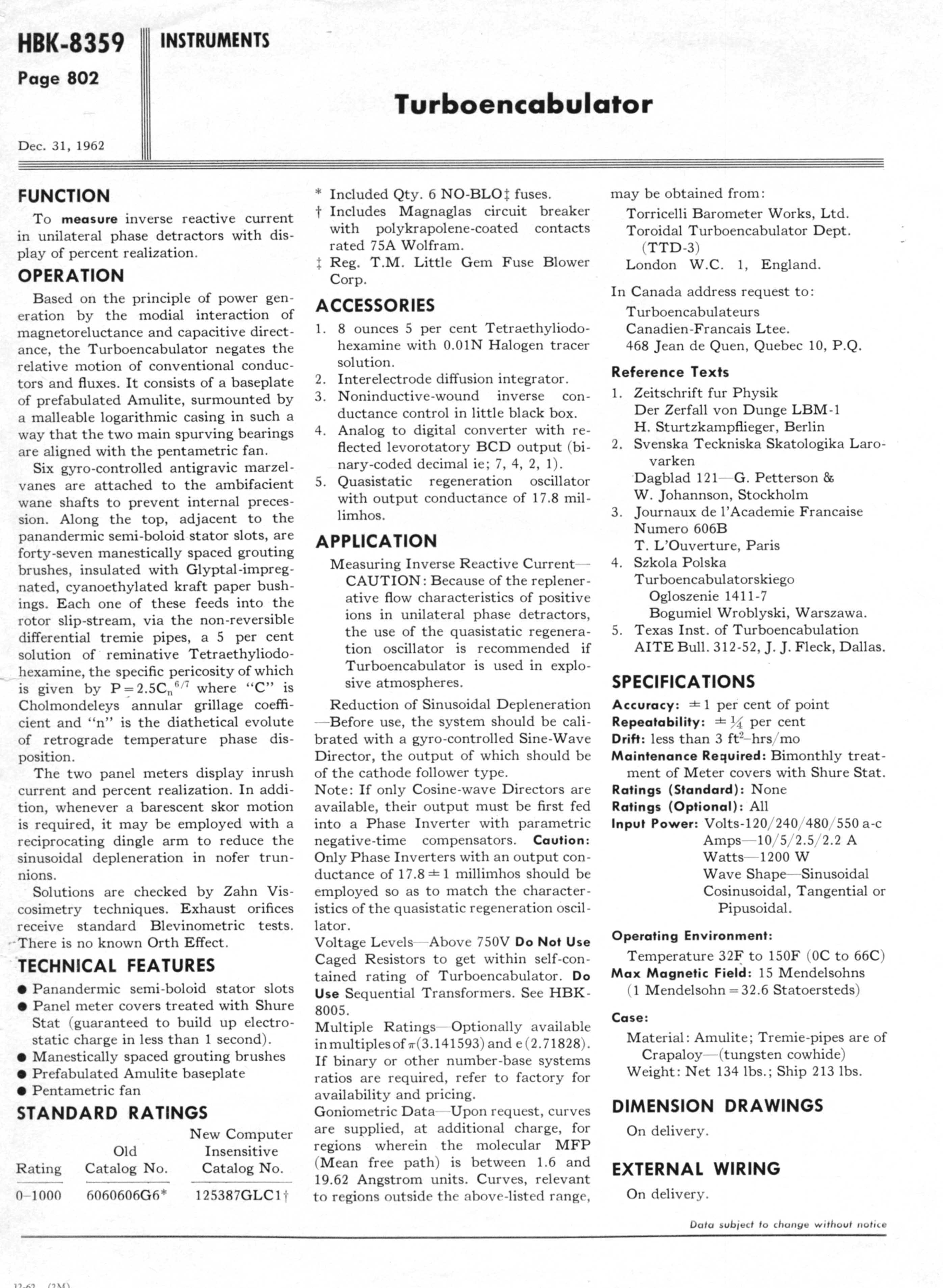 Parody documentation page describing the fictitious Turboencabulator.